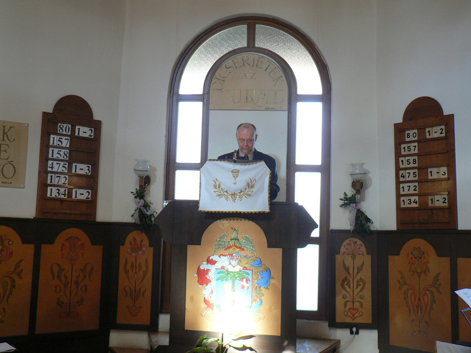 Templombelső a református templomban